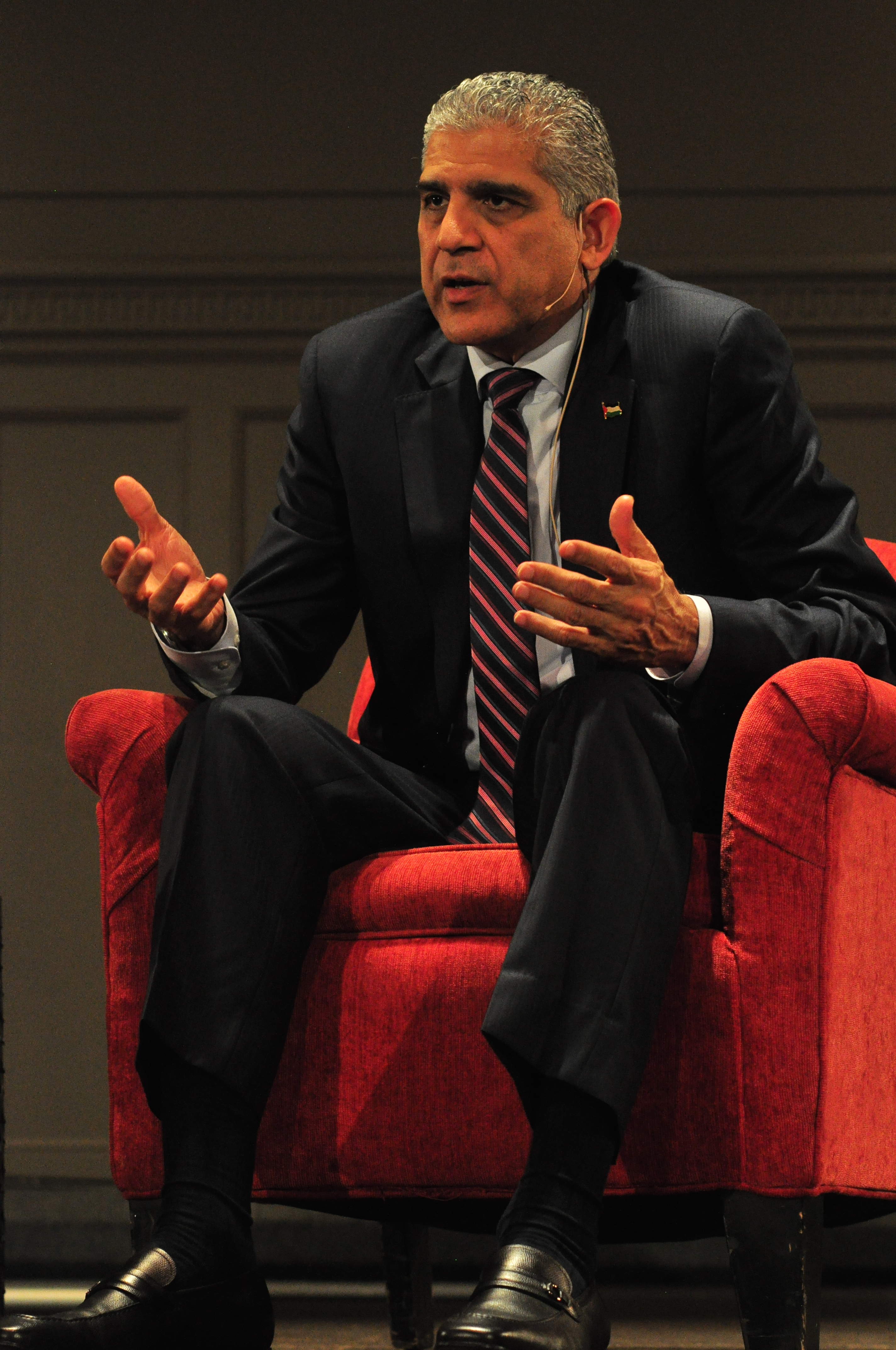 Maen Rashid Areikat (Ambassador Extraordinary and Plenipotentiary, The General Delegation of the Palestine Liberation Organization to the United States), appearing at J Street at Seattle Town Hall: Partnering for a Peaceful Solution to the Israeli-Palestinian Conflict, Town Hall, Seattle, Washington. He and J Street founder and president Jeremy Ben-Ami presented together, with KUOW broadcaster Ross Reynolds as moderator. (The latter two are not shown in this photograph)